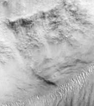 Mars Global Surveyor image of a "face" on Mars, contrast increased slightly but otherwise unedited.